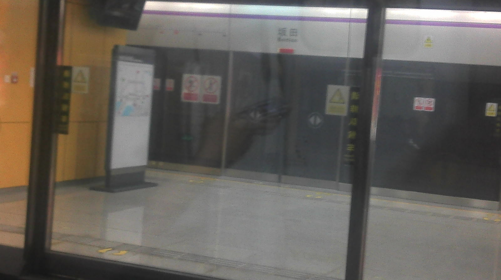 This photo was taken as Sept 30, 2011.